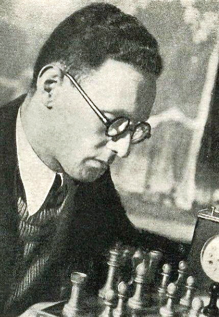 trimmed (modified) version of Botvinnik_1933.jpg on Commons, to correct poor framing. Description: Mikhail Botvinnik Source: match book Botvinnik - Flohr 1933 Date: 1933 Author: not mentioned Author not mentioned; thus in public domain.